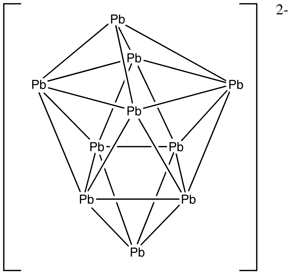 The Pb9(2-) cluster - chemdraw.